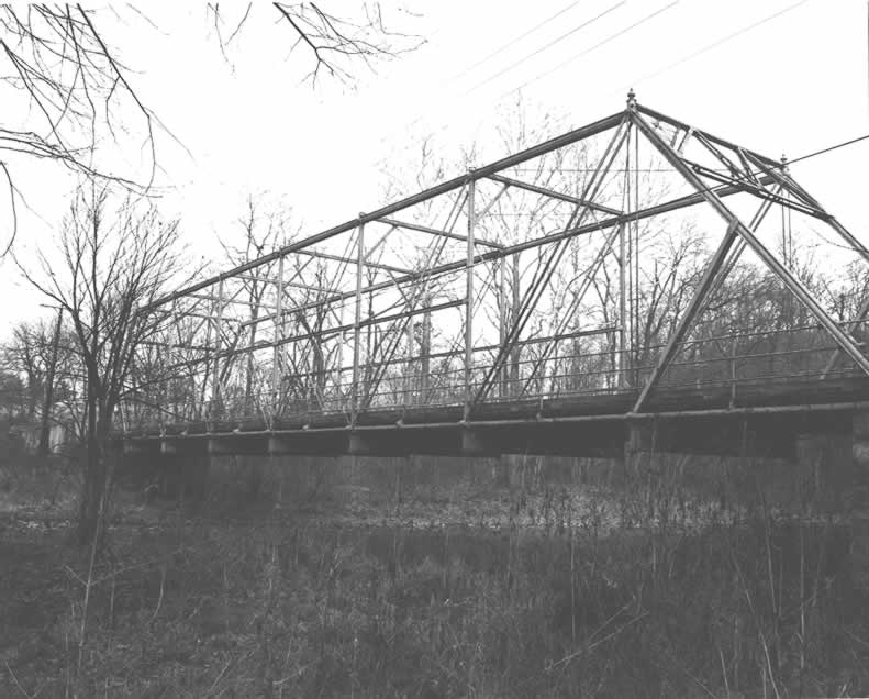 Bridge in Upper Frederick Township which carries Legislative Route 46021, Gerloff Road, over Swamp Creek in Upper Frederick Township, Montgomery County, Pennsylvania, United States. Built in 1888, the bridge is listed on the National Register of Historic Places.